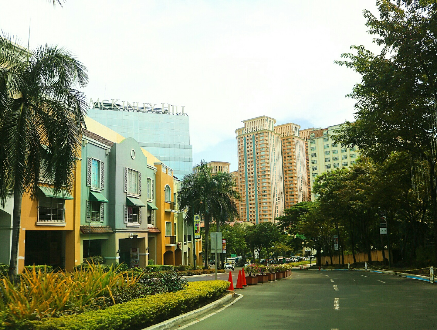 Lower Mckinley Hills